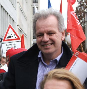 Harald Weinberg at a social demonstration in Nuernberg, november 2010.